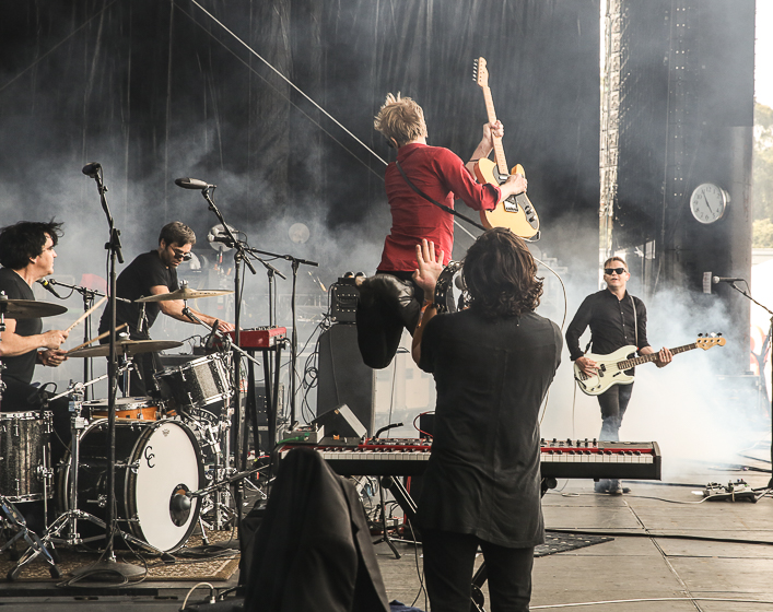 Spoon, performing live 2014